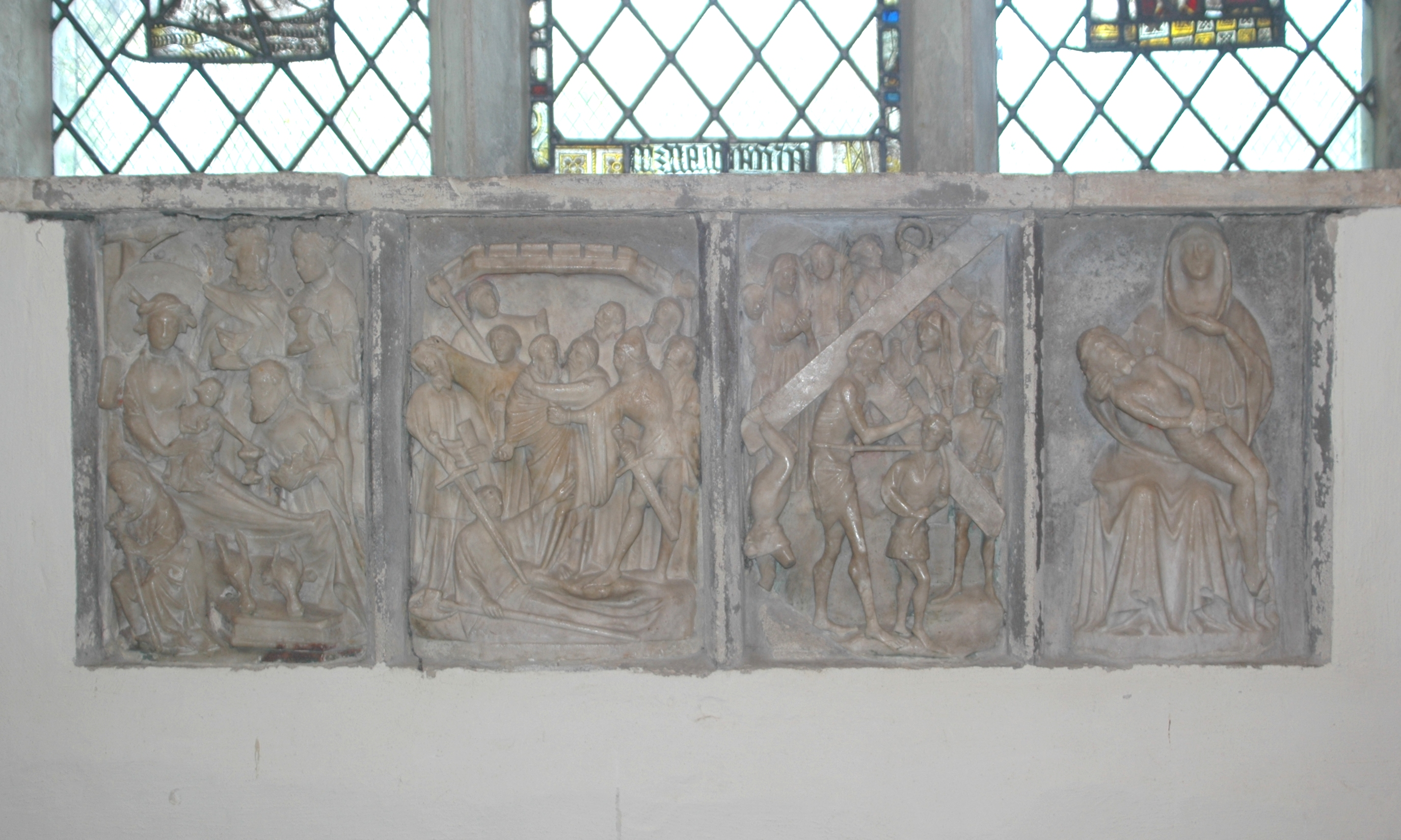 15th century alabaster reredos of Church of England parish church of St. Bartholomew, Yarnton, Oxfordshire